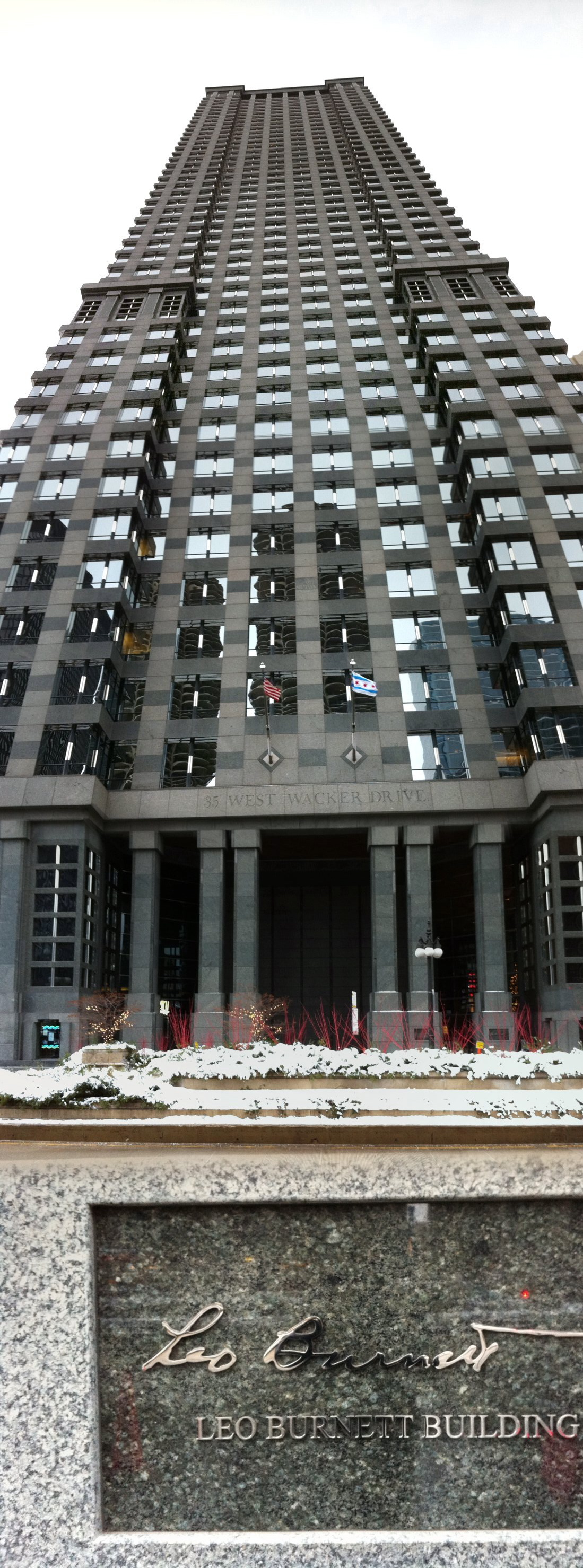 Leo Burnett Building